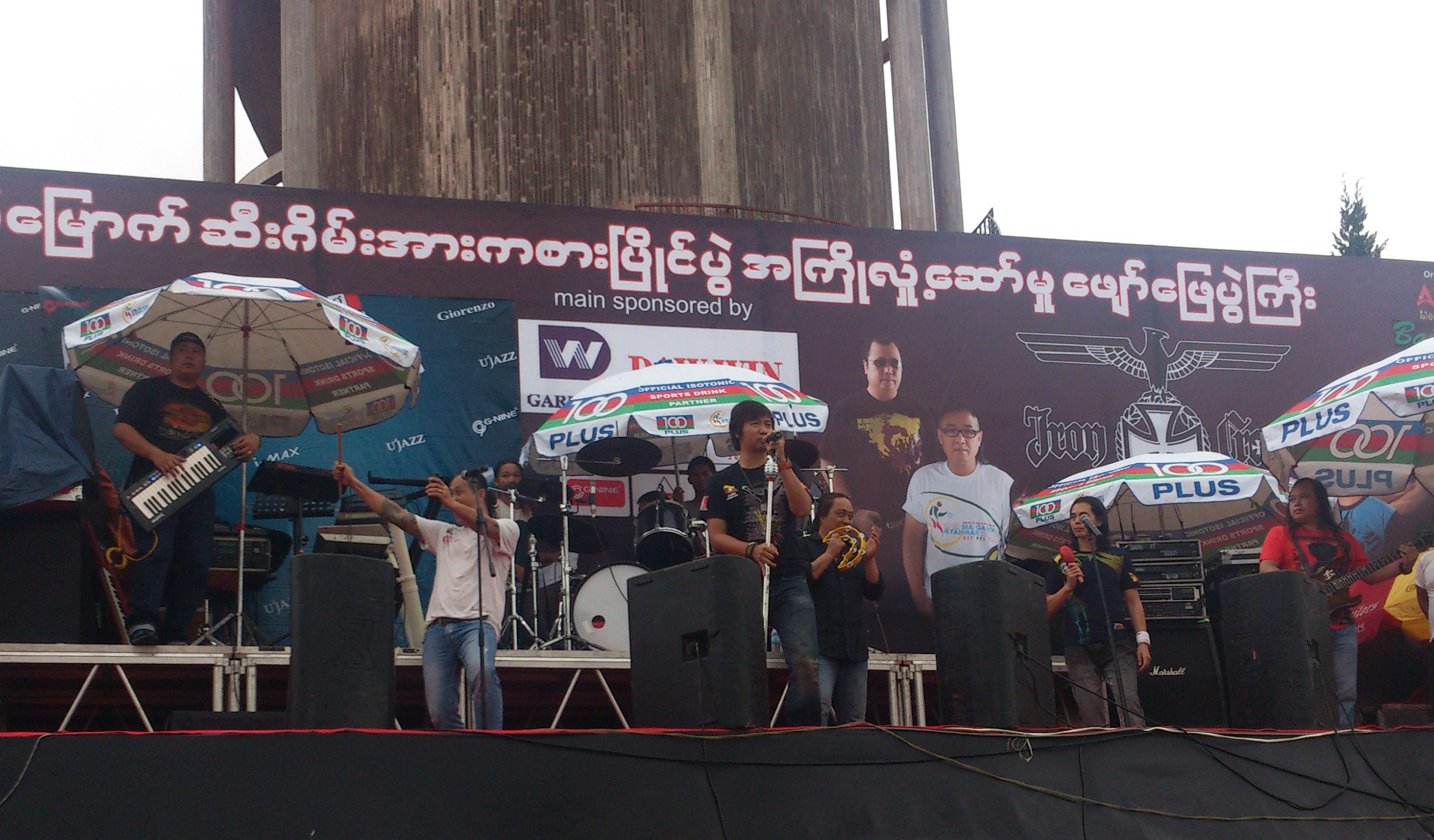 Iron Cross band from Myanmar မြန်မာဘာသာ: အိုင်းရင်းခရော့စ် အဖွဲ့